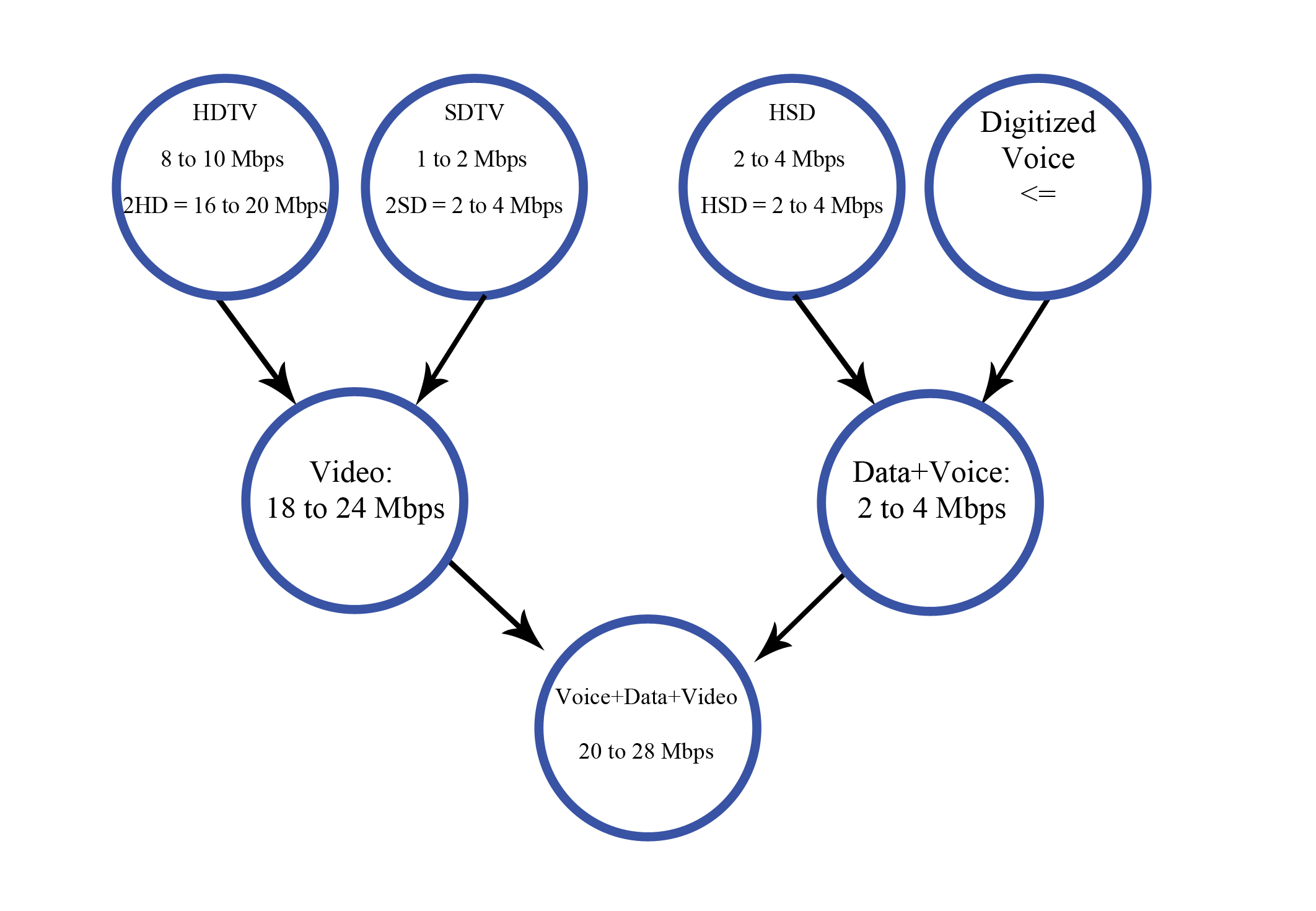 Bandwidth capacity for simultaneously 2 HDTV stream, 2 SD stream, additional to HSD and Voice.